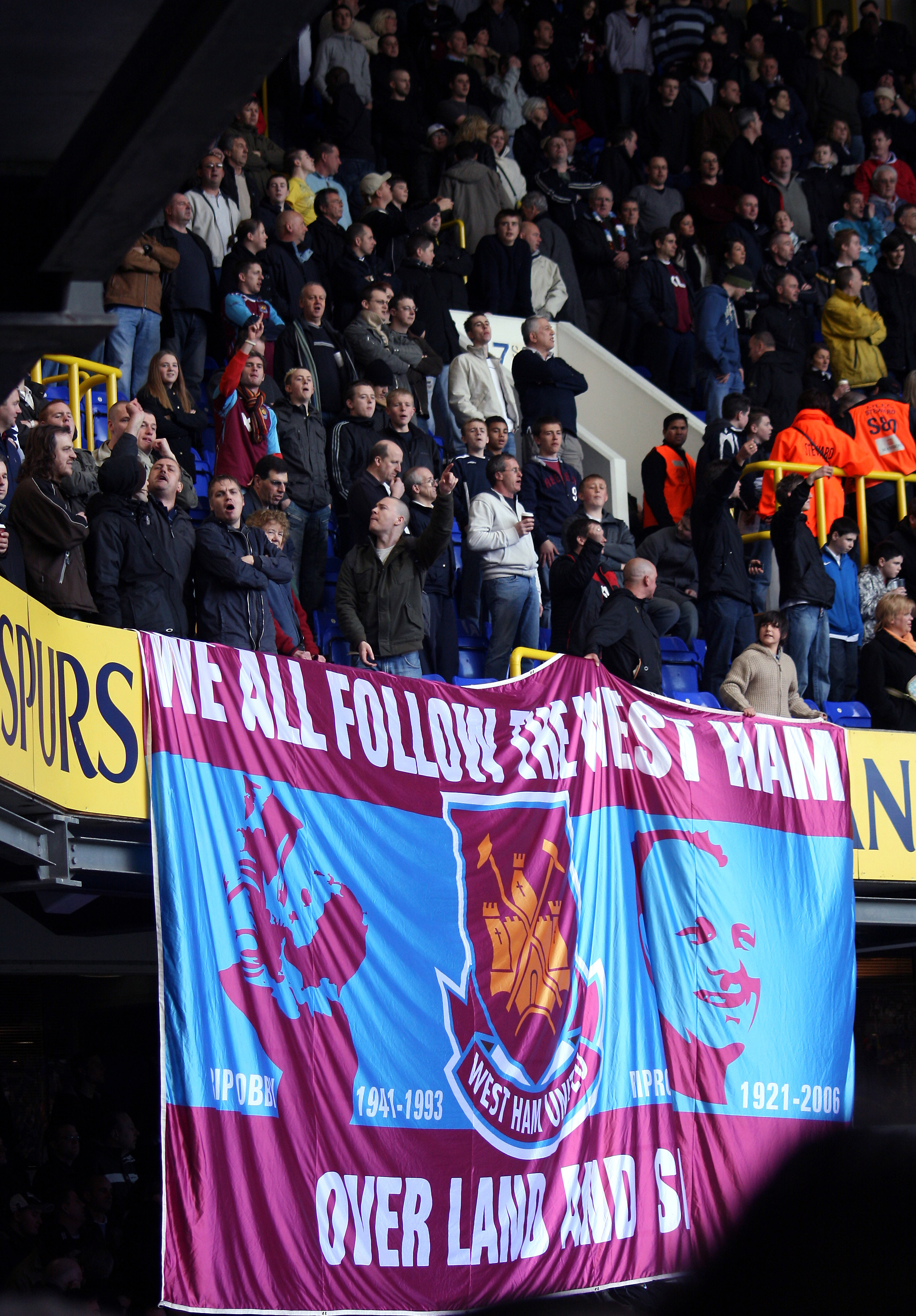 Spurs v West Ham - White Hart Lane - London, England. Loyal Supporters - West Ham don't deserve us, that's for sure!!!!!